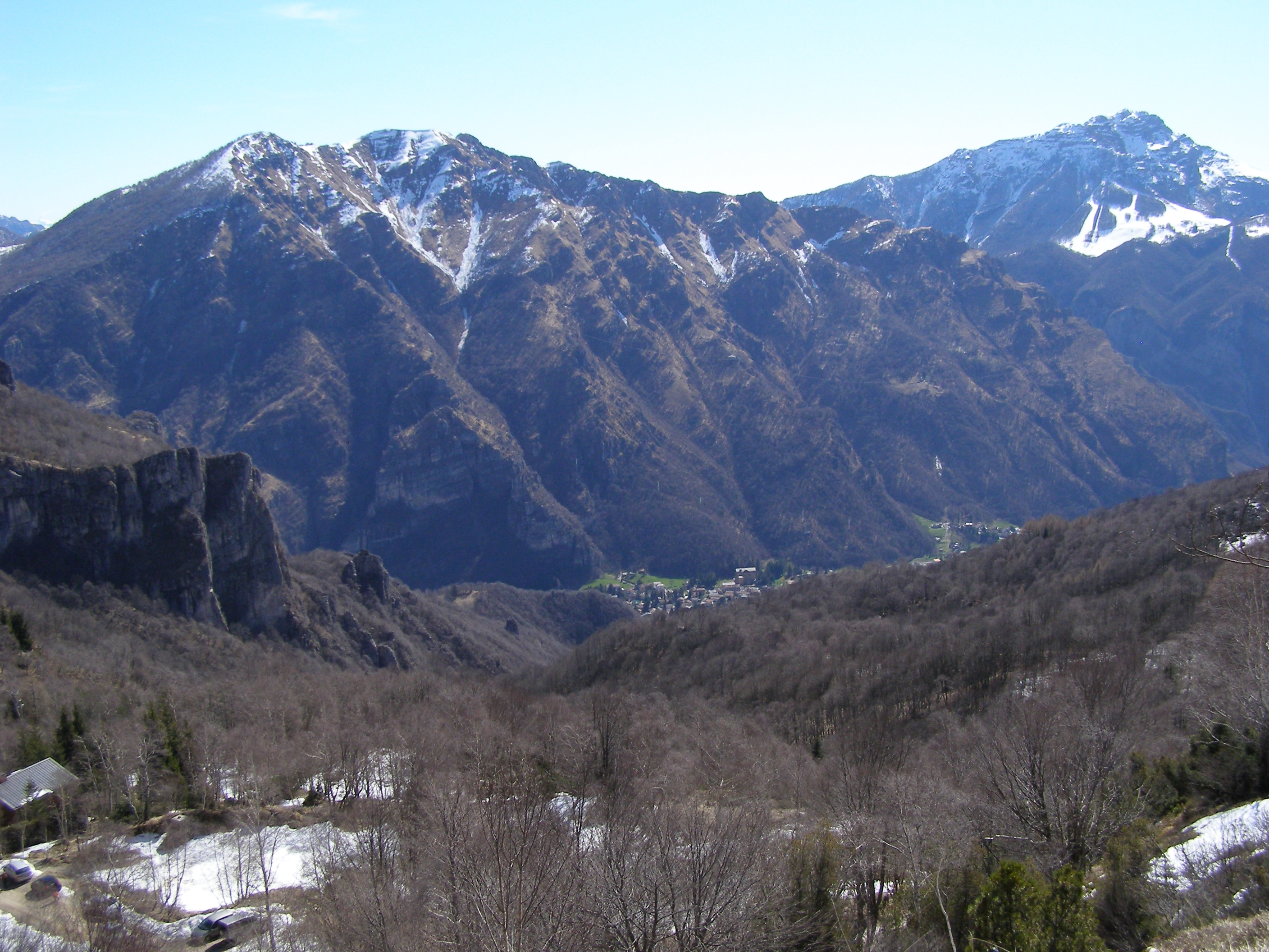 Due Mani and Resegone peaks seen from the Piani Resinelli; the village of Ballabio below